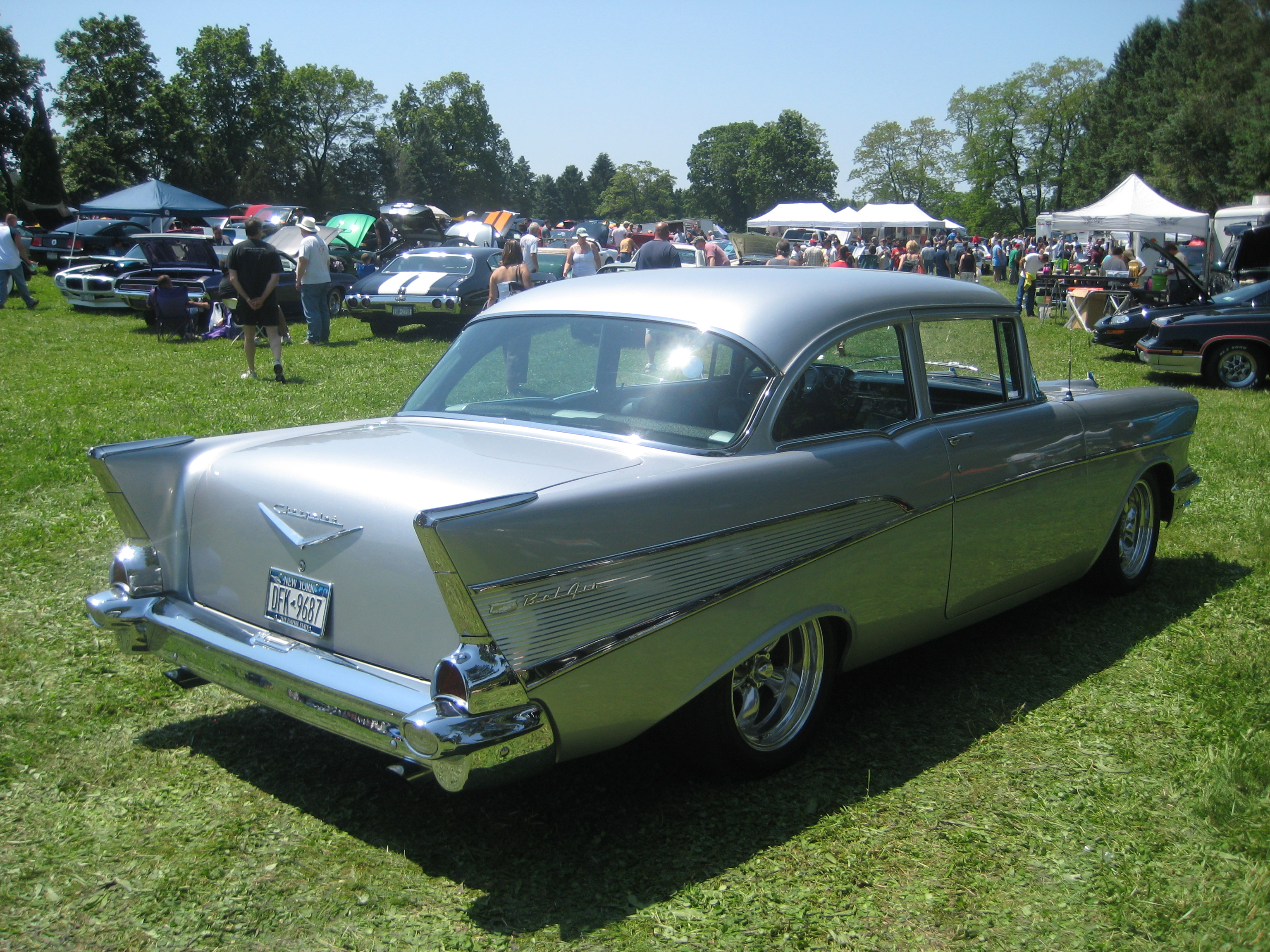 1957 Chevrolet Bel Air